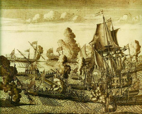 Battle at Gangout. Engraving by A. Zubov. Ink on paper, 1715.